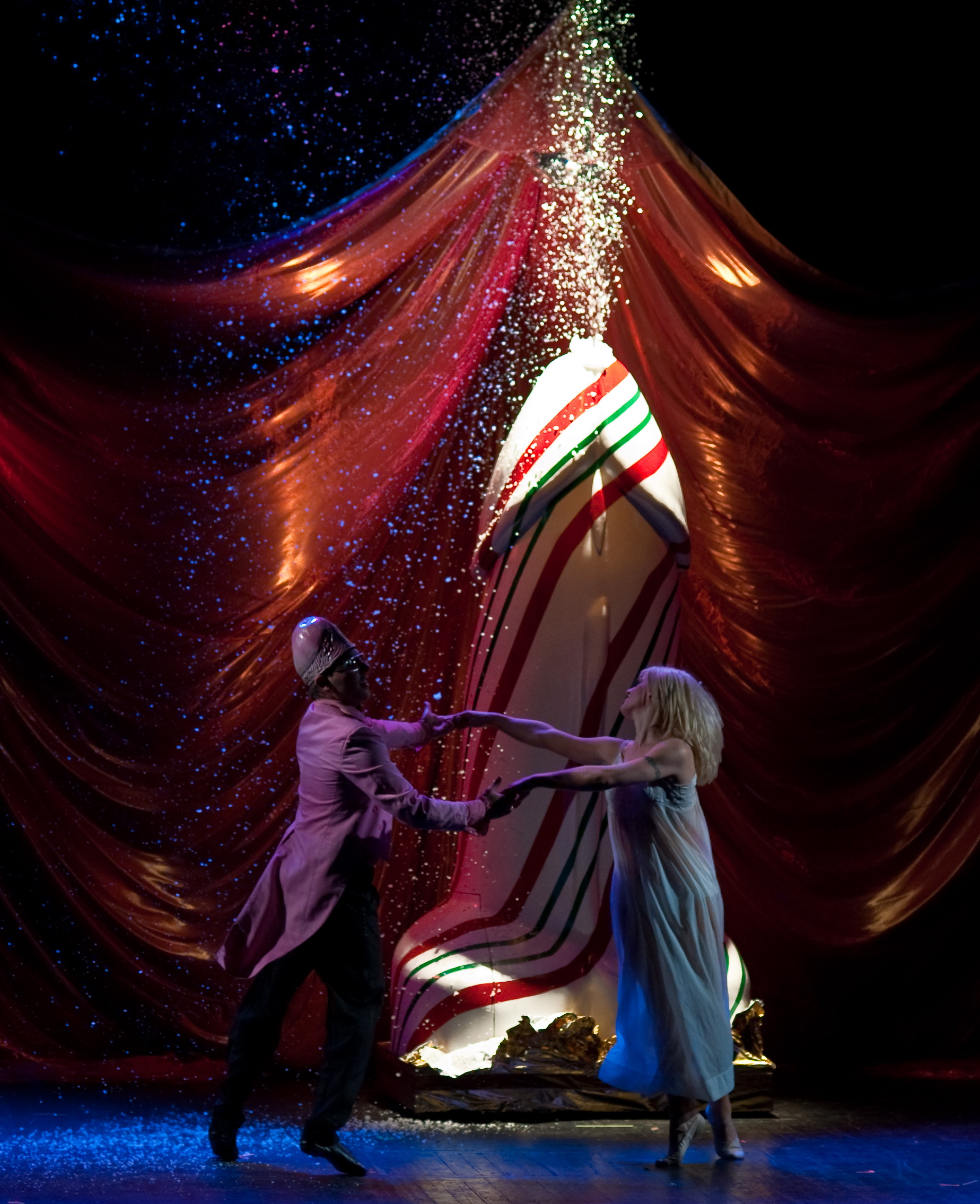 Amy snows in the 2009 Production of The Slutcracker at the Somerville Theatre